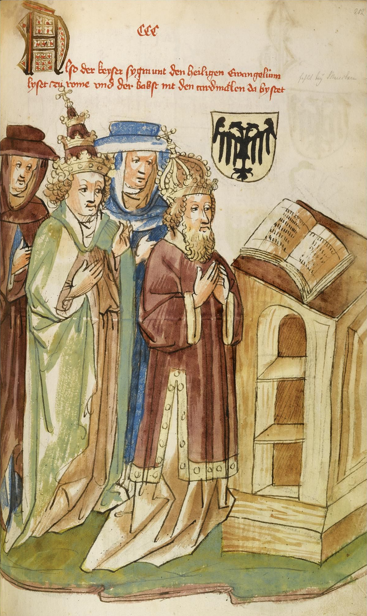 Eberhard Windeck: Das Buch von Kaiser Sigismund (Handschrift bei Sotheby's 7.7.2009, folio 212r, the Emperor Sigismund standing before the Pope and other officials of the Vatican reading from an open copy of the Gospels before him